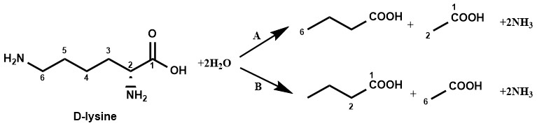 a modified version of the degradation pathways